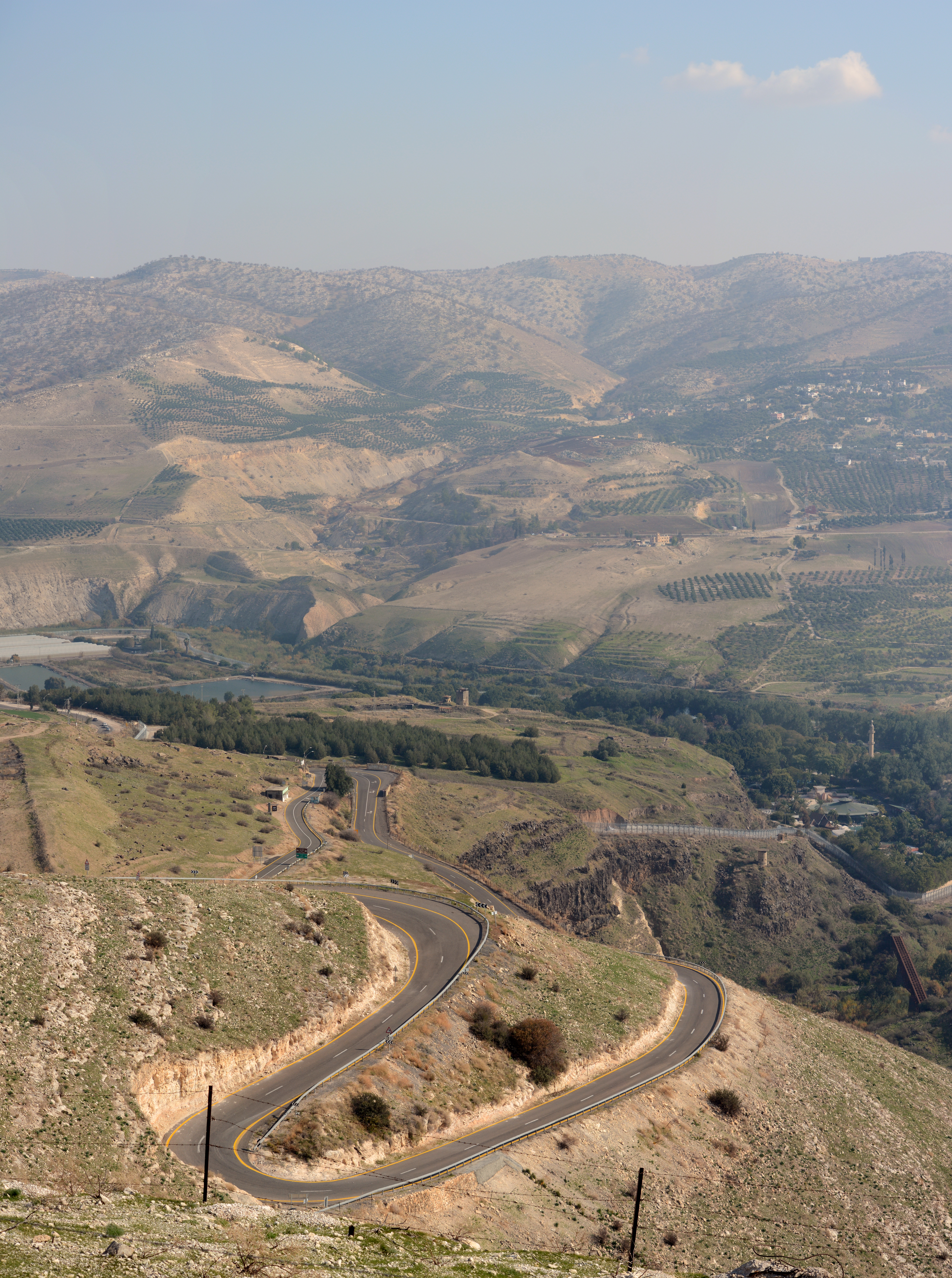 Yarmouk River Valley, Golan Heights, view of the road B98, Hamat Gader, view of Umm Qais, Irbid Governorate (Jordan)